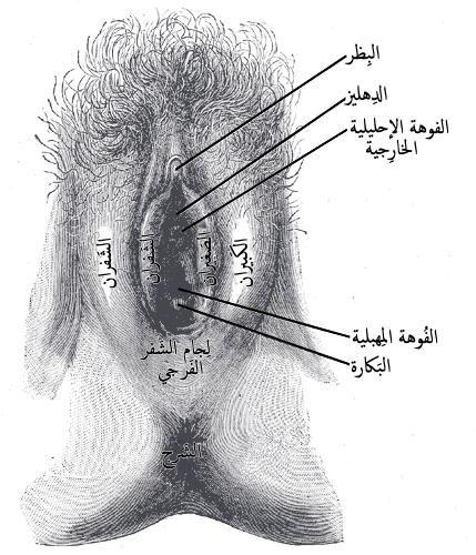 External genital organs of female. The labia minora have been drawn apart.